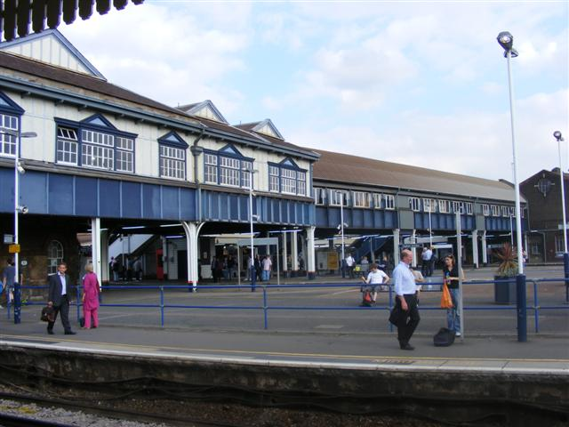 Clapham Junction, in South London, United Kingdom, is the busiest station in terms of rail traffic with an average of one train every 13 seconds at peak times.